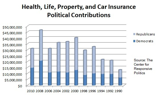 This image depicts U.S. insurance health, life, property, and car insurance industry related political contributions from 1990 to 2010, using data from the Center for Responsive Politics (available here).